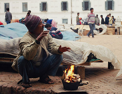 A seller warming himself up in Durbar Square, Kathmandu, Nepal